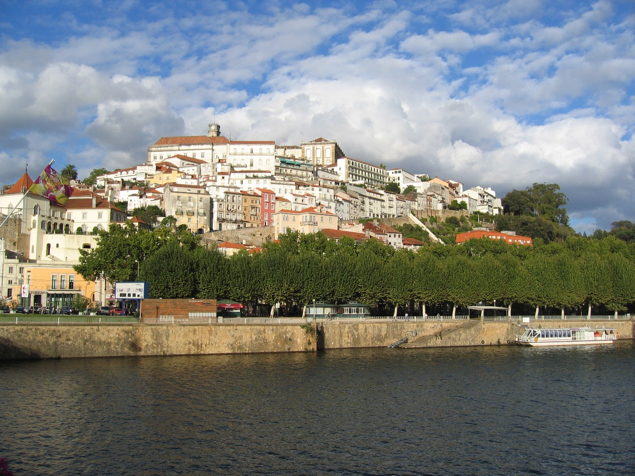 Coimbra Old Town, View from Ponte Santa Clara, across the Rio Mondego, of the old town Coimbra, clinging to the hills. Coimbra